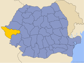 Location of Timiș County in Romania.